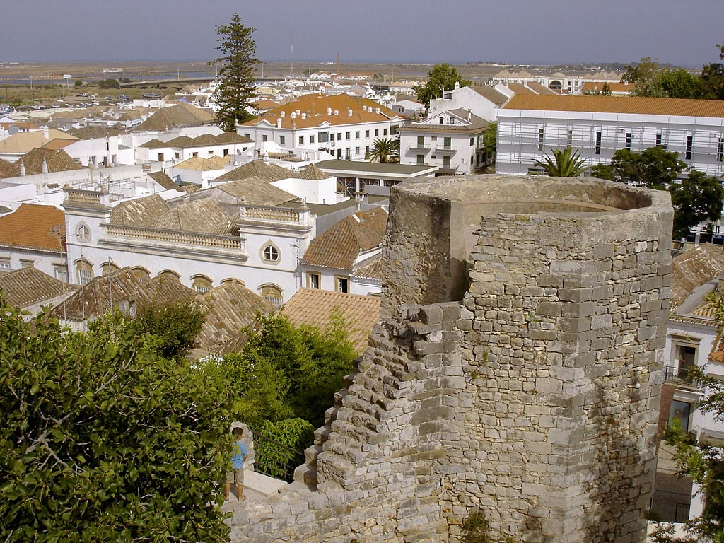 Castle of Tavira, Portugal